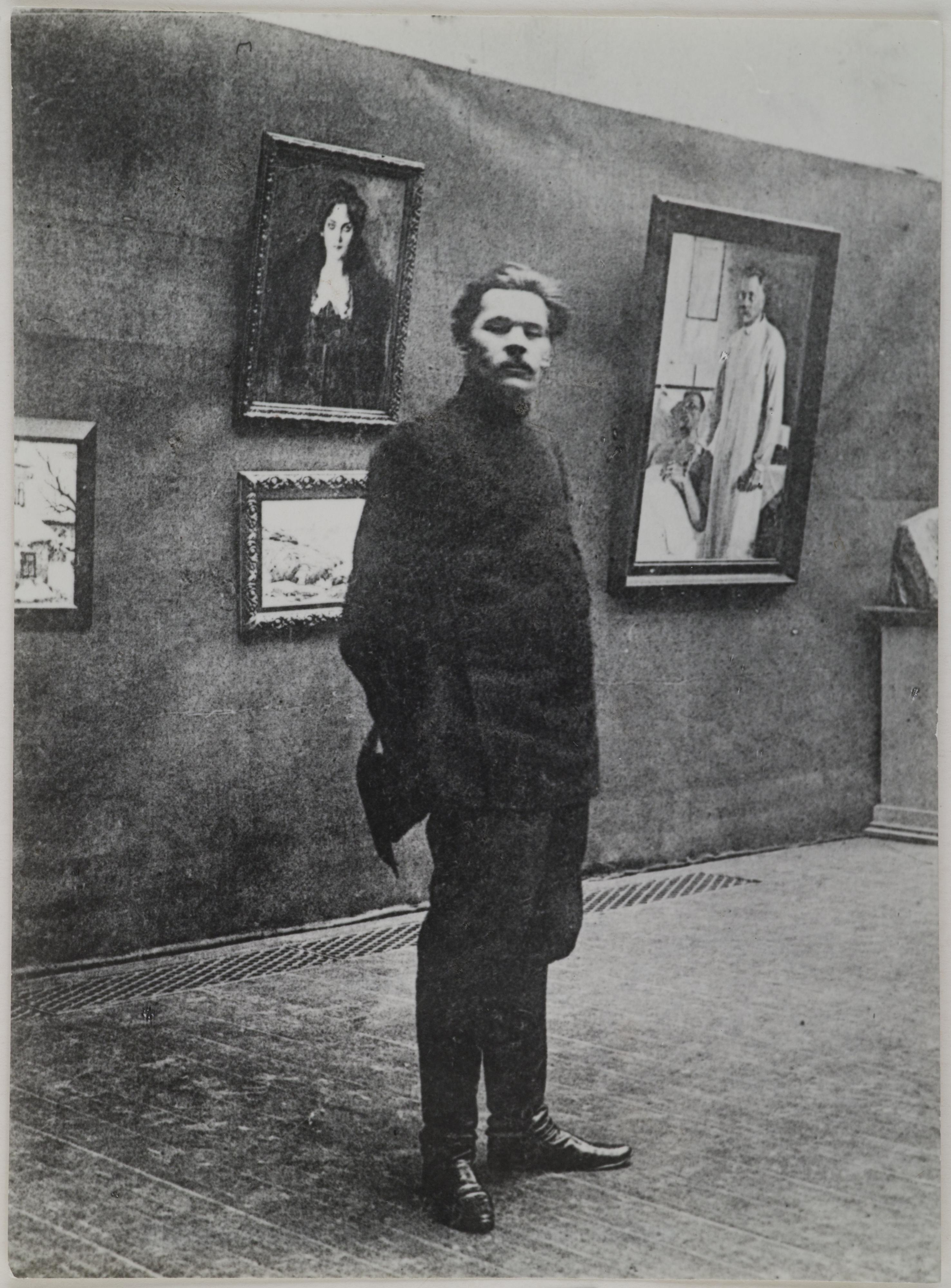 Maksim Gorki Ateneumin taidemuseossa noin vuonna 1906. Gorki saapui vuoden 1906 alussa poliittisena pakolaisena Suomeen. Hän piti yhteyttä useisiin suomalaisiin taiteilijoihin ja oleskeli myös Axel Gallénin Pirtti-ateljeessa Helsingissä, jossa taiteilija maalasi hänen muotokuviaan. Gorkin museo lähetti valokuvan Kirsti Gallen-Kallelalle 1956. kuvauspaikka: Helsinki, Ateneum ajoitus: 1906 (arvio) kuvaaja: kuva-alan mitat: 168x123mm tekniikka: merkintöjä: inventointinumero: GKM_VV_1329 kokoelma: Akseli Gallen-Kallelan valokuvakokoelma tutki lisää / explore further: Tiedätkö lisää tästä kuvasta? Kerro meille! Do you have information on this photo? Let us know!